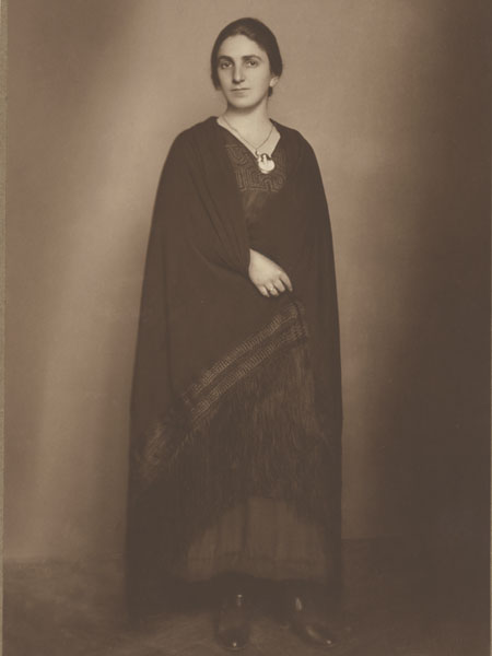 Title: Portrait of Toni Stolper Creator/Photographer: Signed by photographer A.M. Schein Medium: Black and white photograph Date: 1924 Repository:Leo Baeck Institute Parent Collection: Toni and Gustav Stolper Collection AR 7212 F AR 7212 Call Number: F 11693 Rights Information: No known copyright restrictions; may be subject to third party rights. For more copyright information, click here. Find more information about this image and others at CJH Archives and Library Catalog.